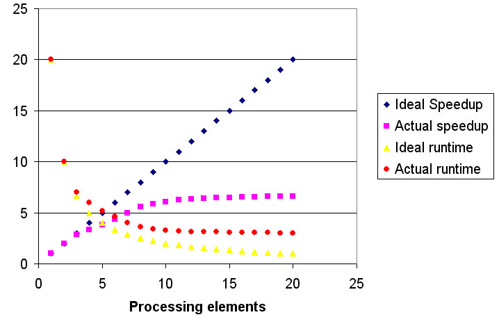 Graph of speed-up and program runtime from parallelization